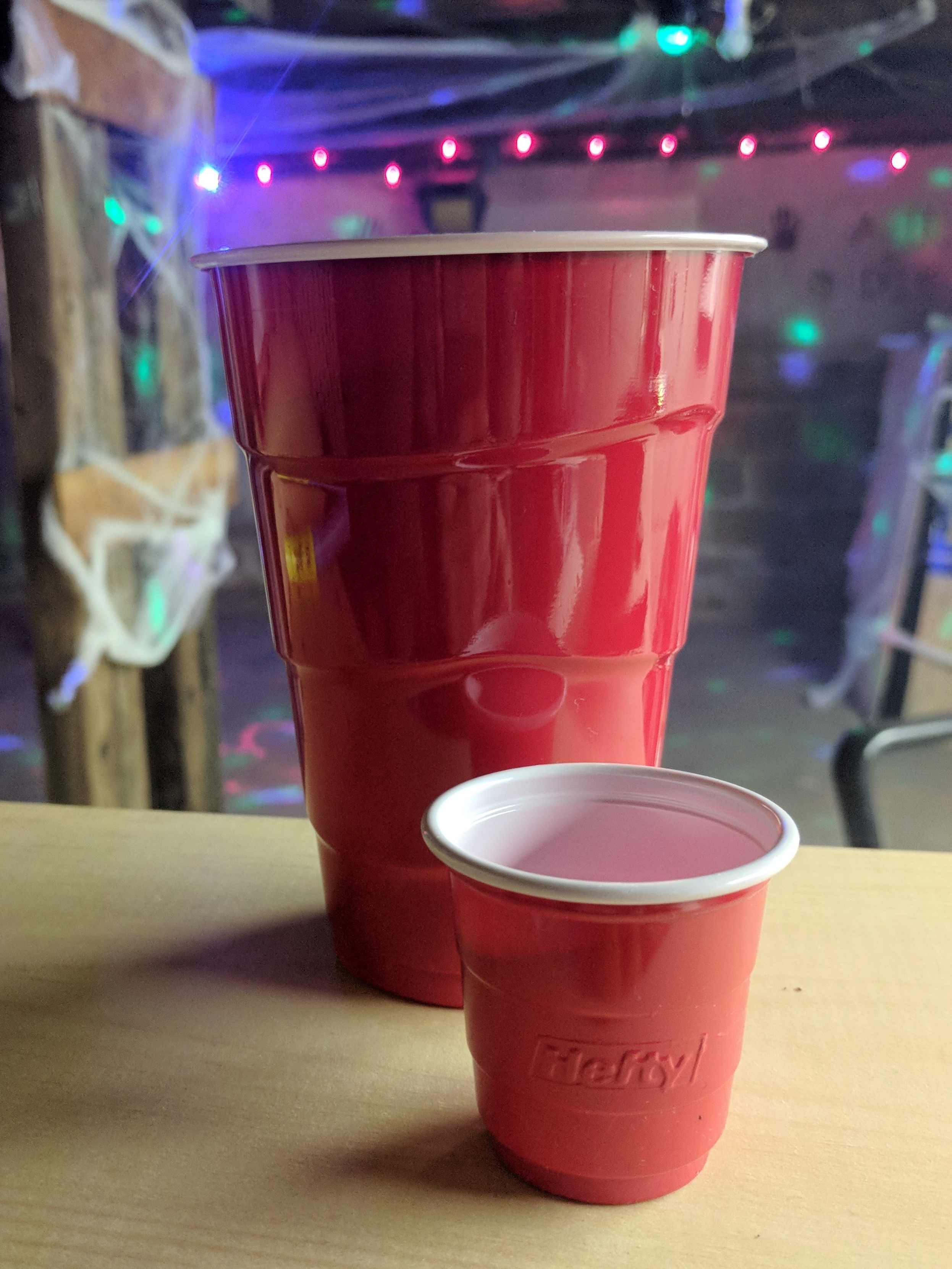 Small and large Hefty brand red plastic cups in the basement of a frat house. The red cup is commonly used in drinking games such as beer pong in the US.